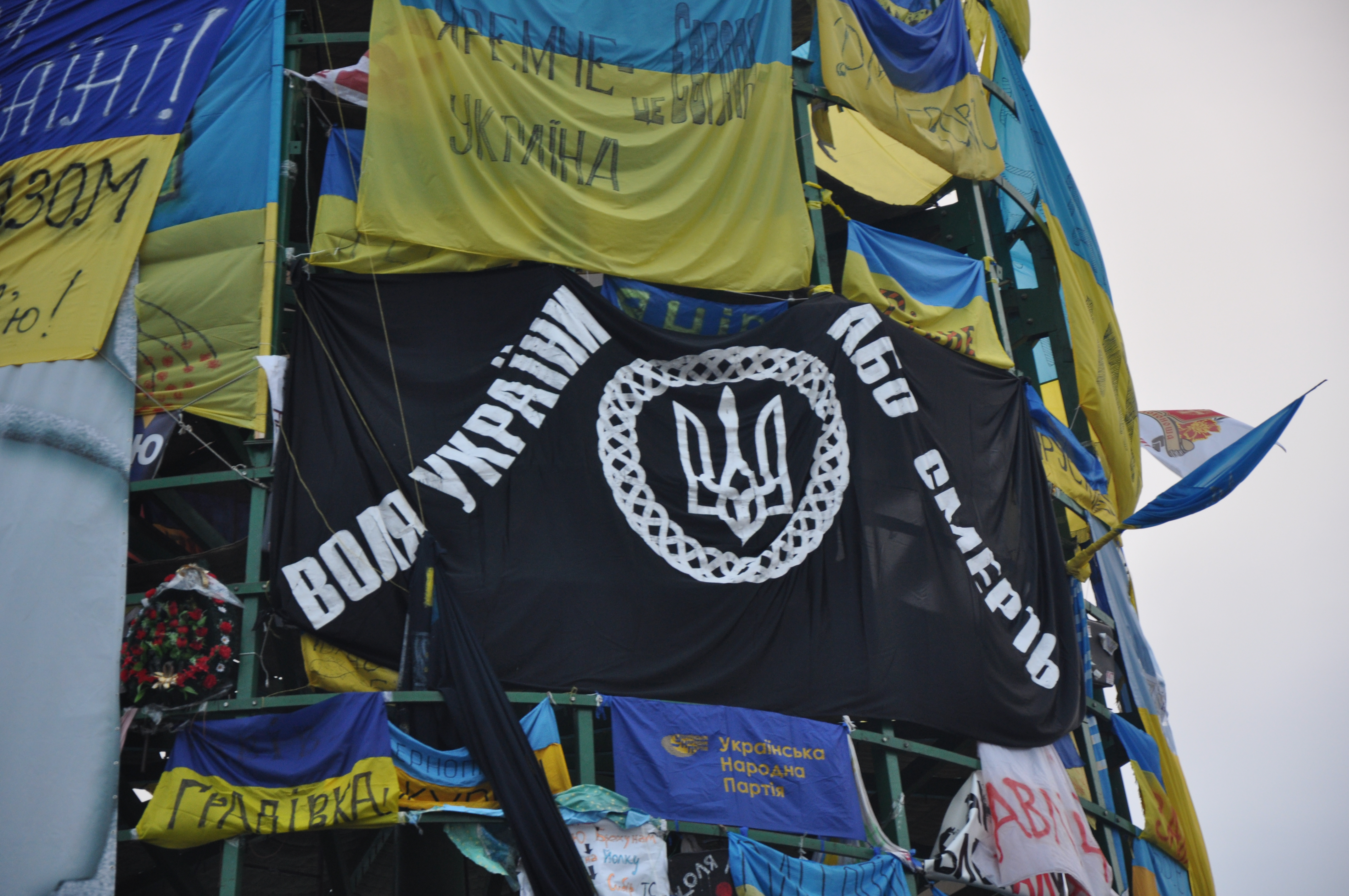 Euromaidan in Kyiv: Liberty or Death flag.